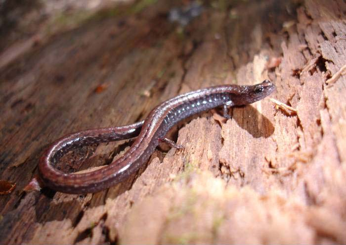 Batrachoseps attenuatus (California slender salamander)